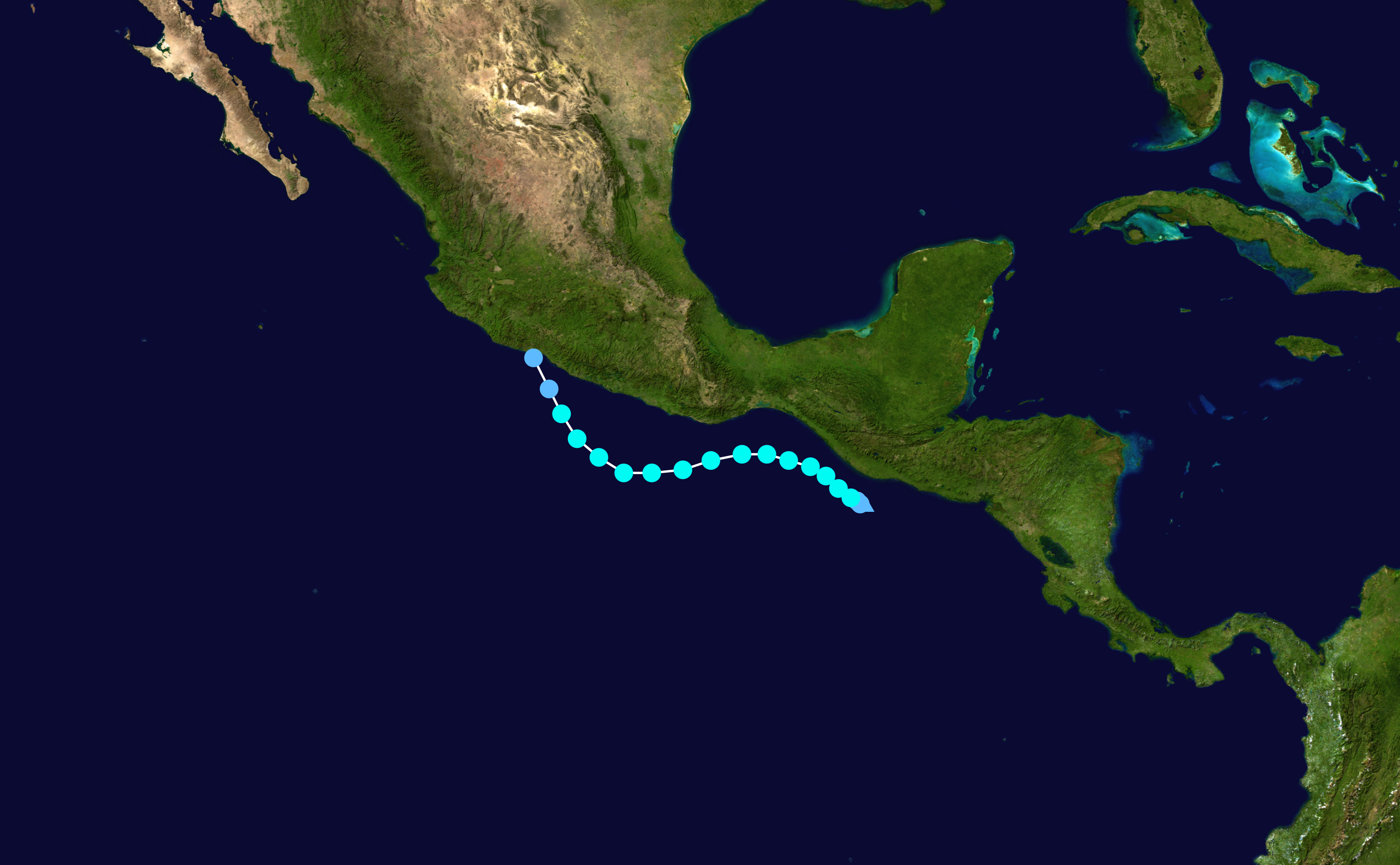 Track map of Tropical Storm Vicente of the 2018 Pacific hurricane season. The points show the location of the storm at 6-hour intervals. The colour represents the storm's maximum sustained wind speeds as classified in the Saffir–Simpson scale (see below), and the shape of the data points represent the nature of the storm, according to the legend below. Saffir–Simpson scale Tropical depression≤38 mph≤62 km/h Category 3111–129 mph178–208 km/h Tropical storm39–73 mph63–118 km/h Category 4130–156 mph209–251 km/h Category 174–95 mph119–153 km/h Category 5≥157 mph≥252 km/h Category 296–110 mph154–177 km/h Unknown Storm type Tropical cyclone Subtropical cyclone Extratropical cyclone / Remnant low / Tropical disturbance / Monsoon depression